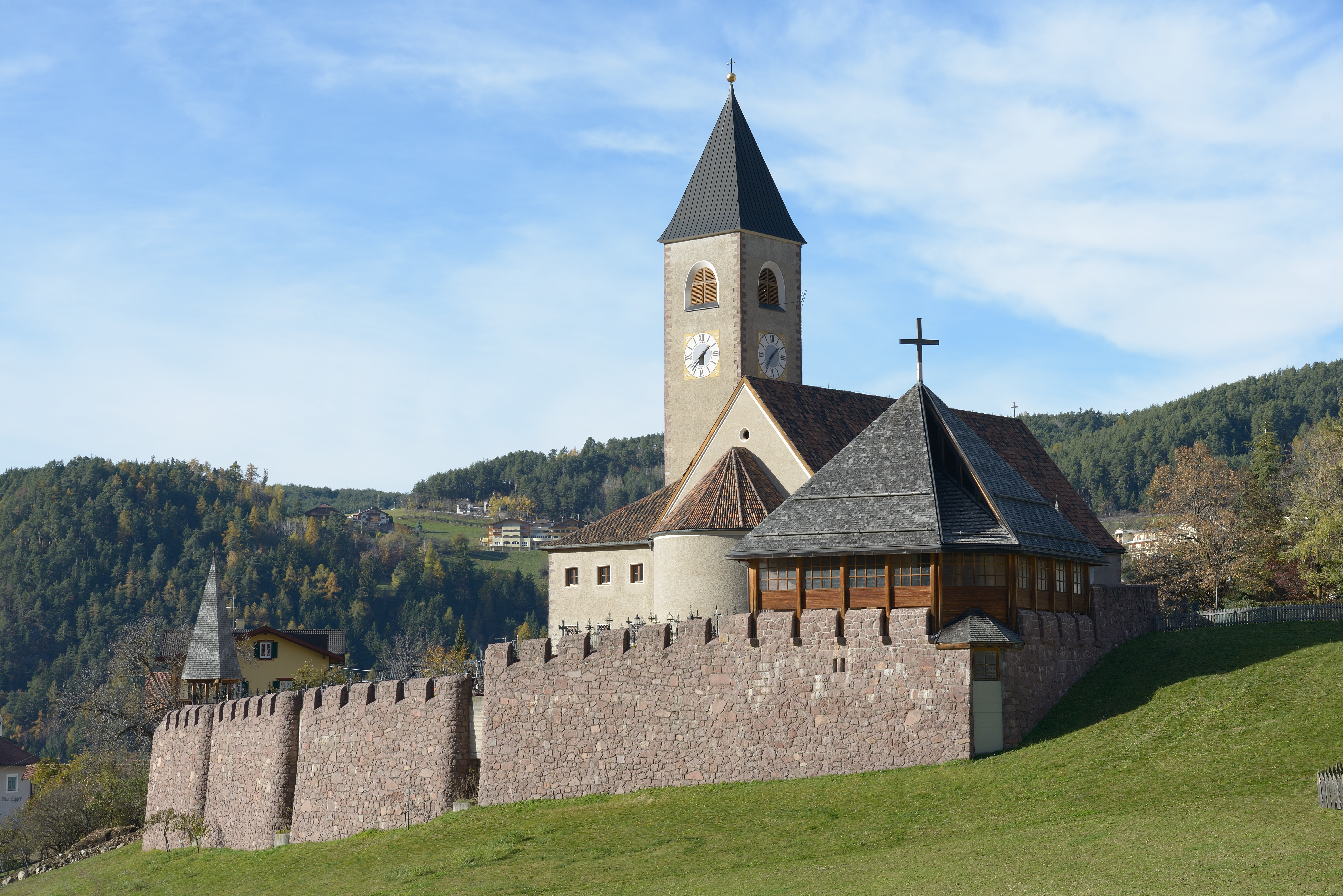 Parish church in Seis Kastelruth